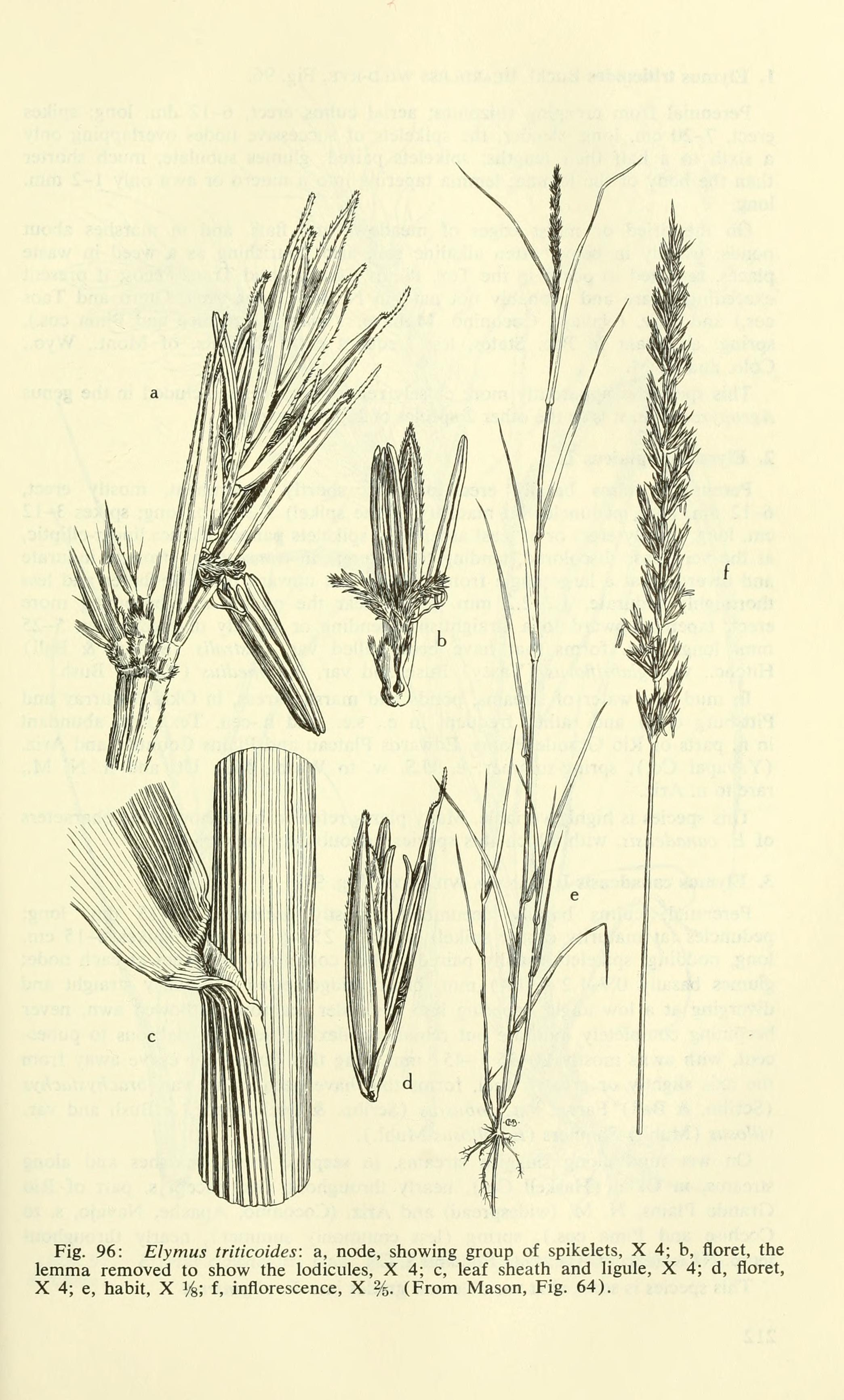 Title: Aquatic and wetland plants of southwestern United States Year: 1972 (1970s) Authors: Correll, Donovan Stewart, 1908-; Correll, Helen B Subjects: Aquatic plants -- Southwestern States; Wetland plants -- Southwestern States Publisher: [Washington Environmental Protection Agency; [For sale by the Supt. of Docs. , U. S. Govt. Print. Off. Text Appearing Before Image: ' Text Appearing After Image: Fig. 96: Elymus triticoides: a, node, showing group of spikelets, X 4; b, floret, the lemma removed to show the lodicules, X 4; c, leaf sheath and ligule, X 4; d, floret, X 4; e, habit, X Vg; f, inflorescence, X %. (From Mason, Fig. 64).